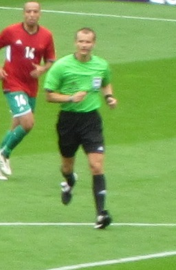 Football at the 2012 Summer Olympics – Men's tournament - Preliminary round (Honduras Vs Morocco)